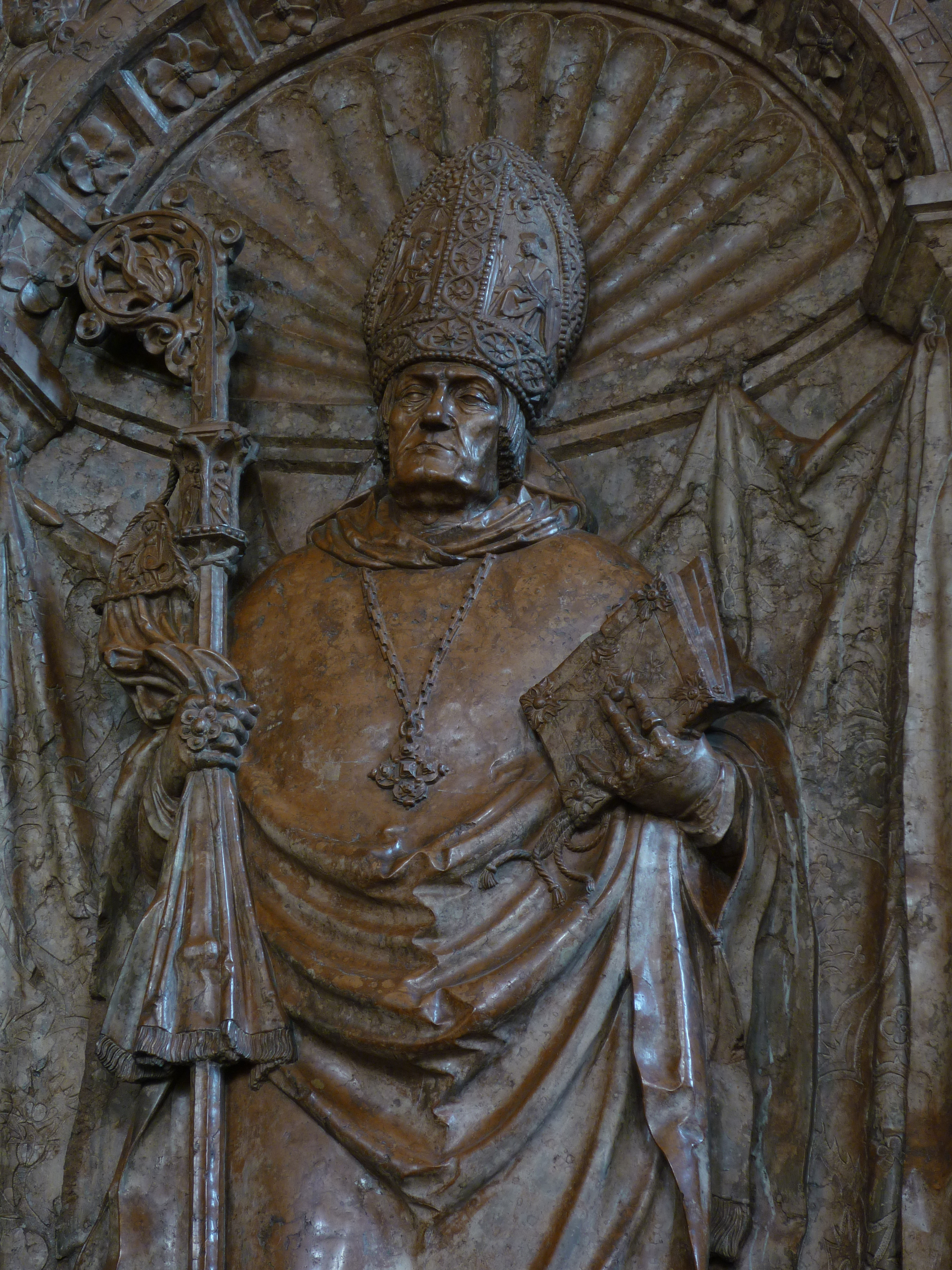 Epitaph of bishop Georg von Slatkonia in St. Stephen's Cathedral Vienna, attributed to Loy Hering